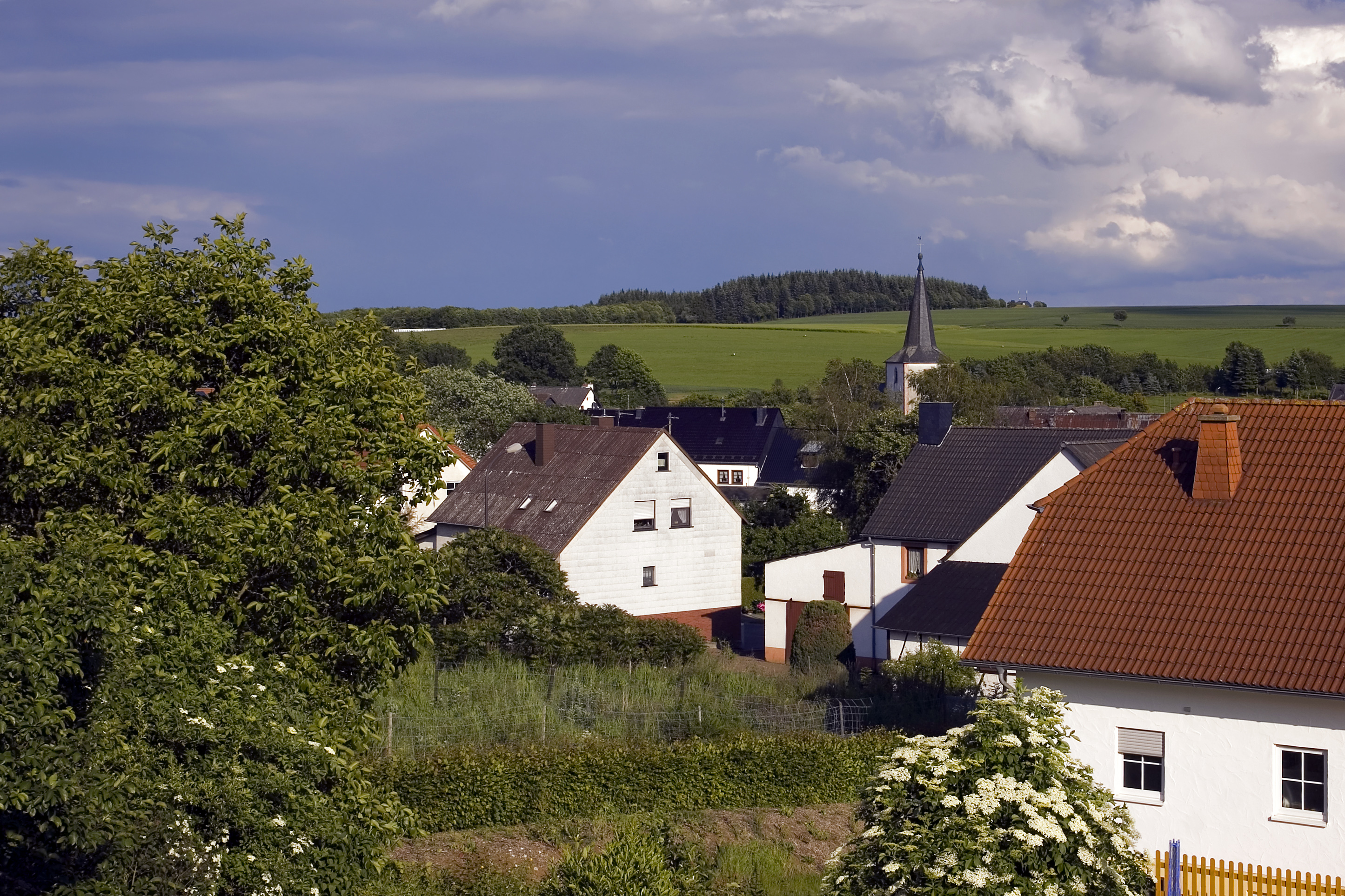 Eckfeld, Eifel